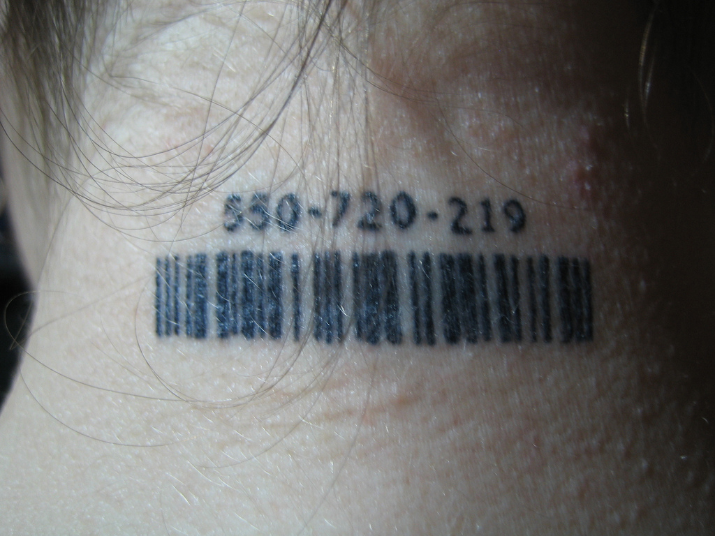 Barcode tattoo with "TSR" number based on Tanos ownership site.